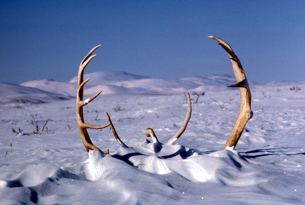 Caribou Antlers in the Snow, Selawik National Wildlife Refuge